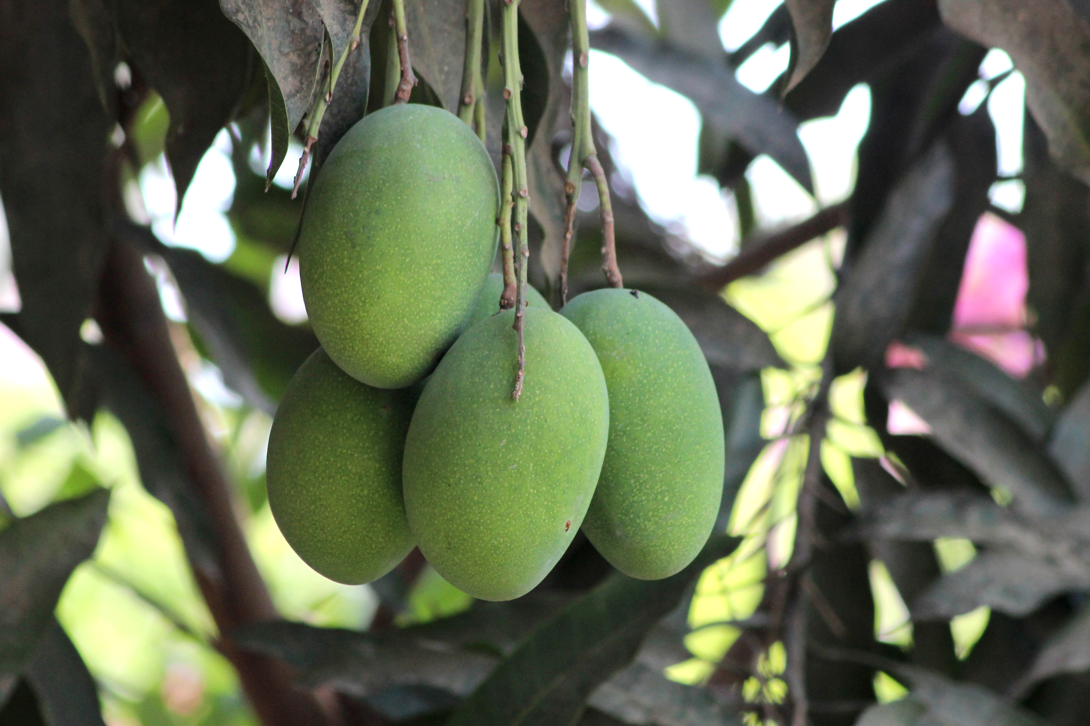 Amrapali Mango from India